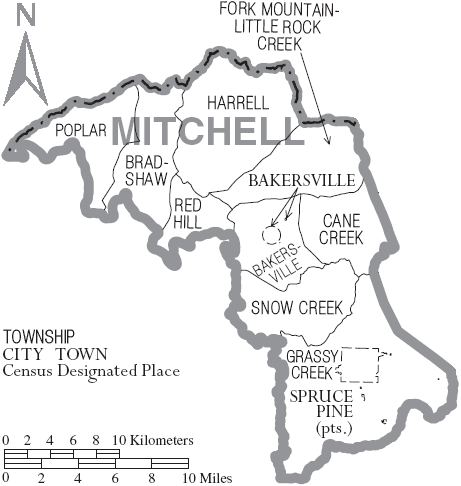 Map of Mitchell County, North Carolina, United States with township and municipal boundaries